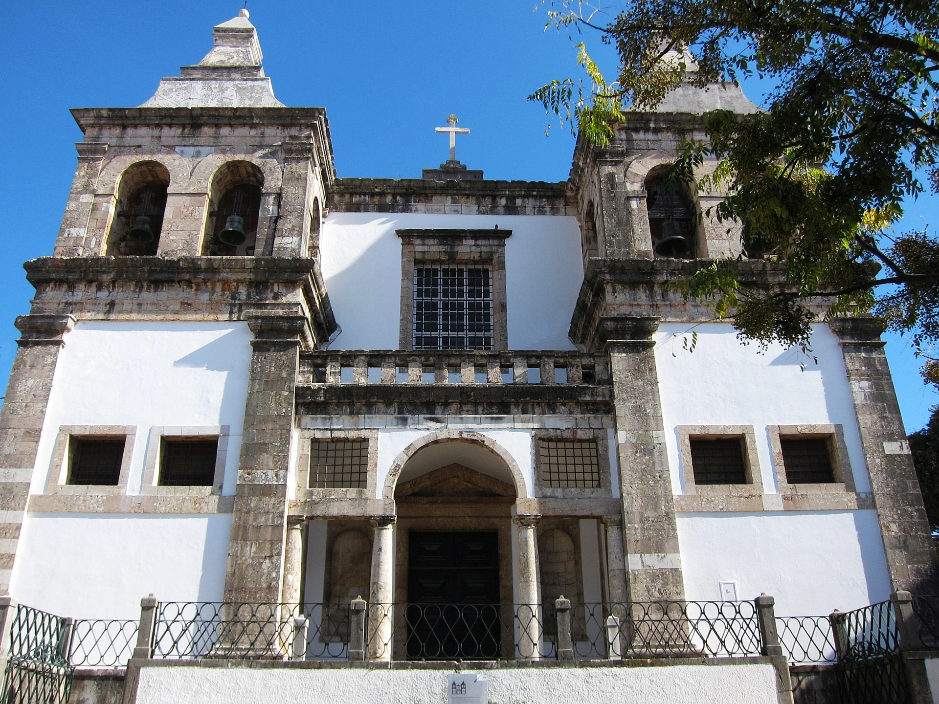 Church of Santa Maria das Graças (16th-18th centuries)